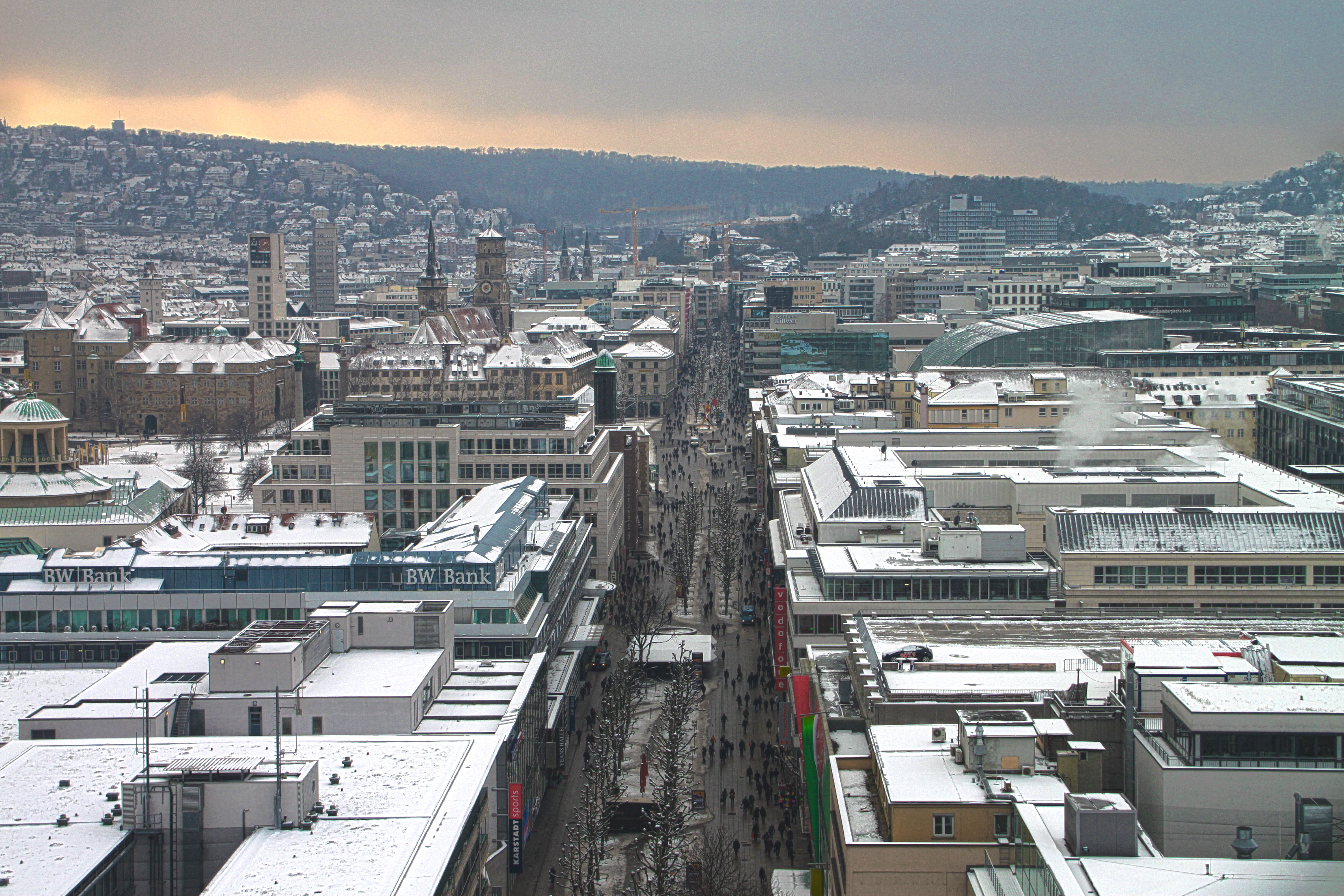 The Koenigstrasse in the wintertime, seen from the station tower